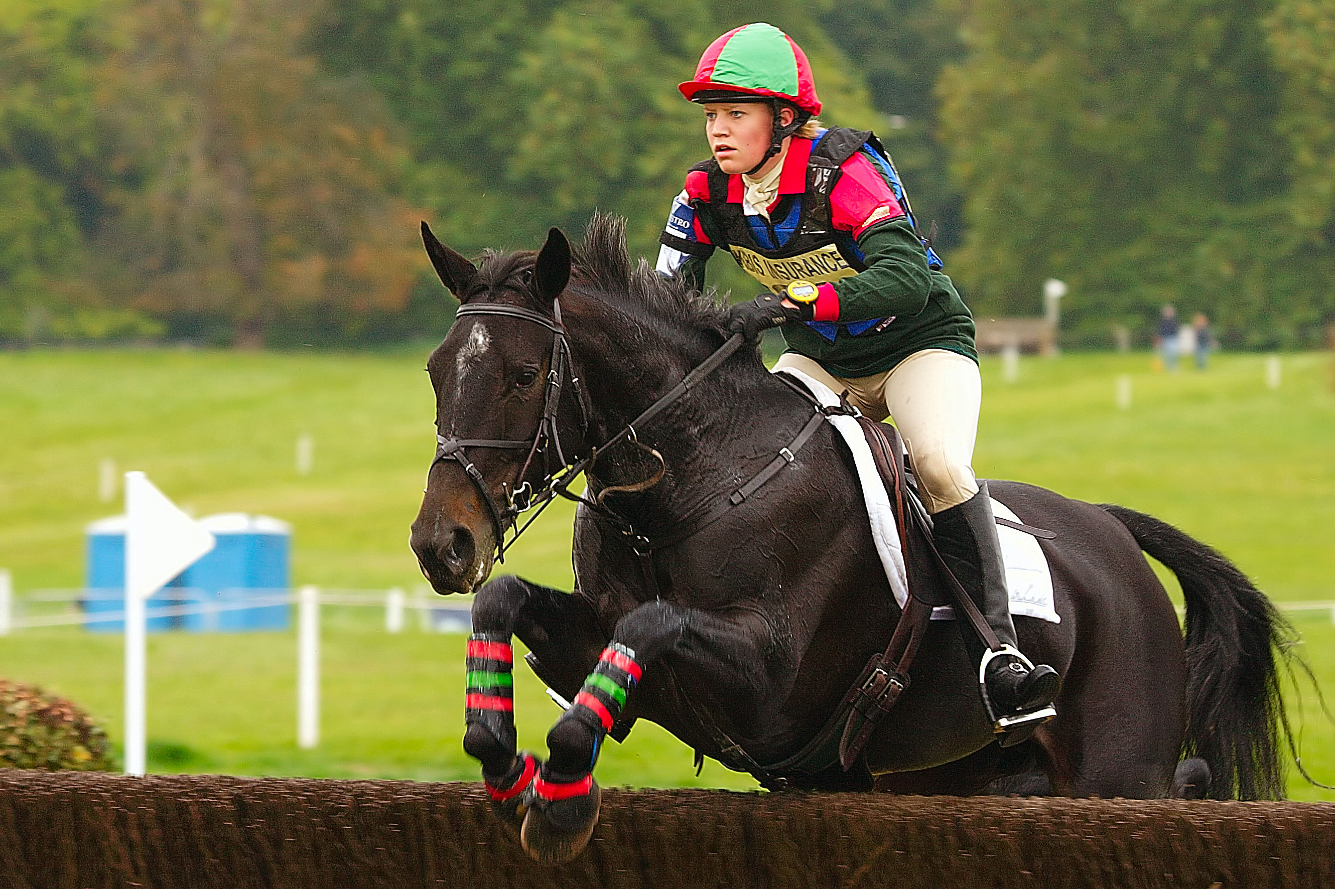 The expression on this riders face, concentration Weston Park, Shropshire, UK International Three Day Event 3rd -7th Oct 2007